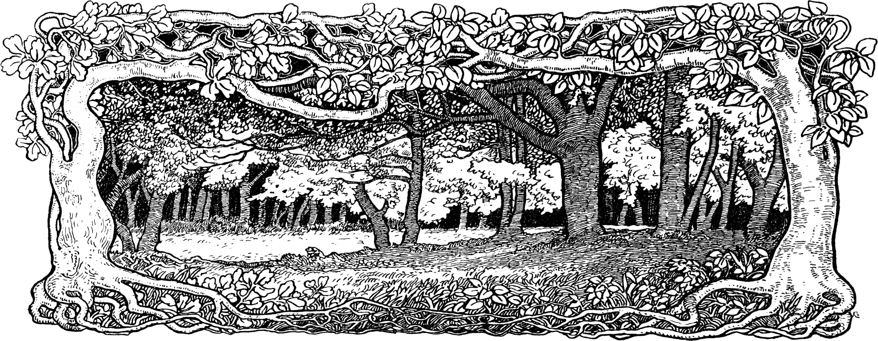 A wild danish forest, draw in "skønvirke" style (Danish Arts & Crafts movement similar to "Art nouveau").